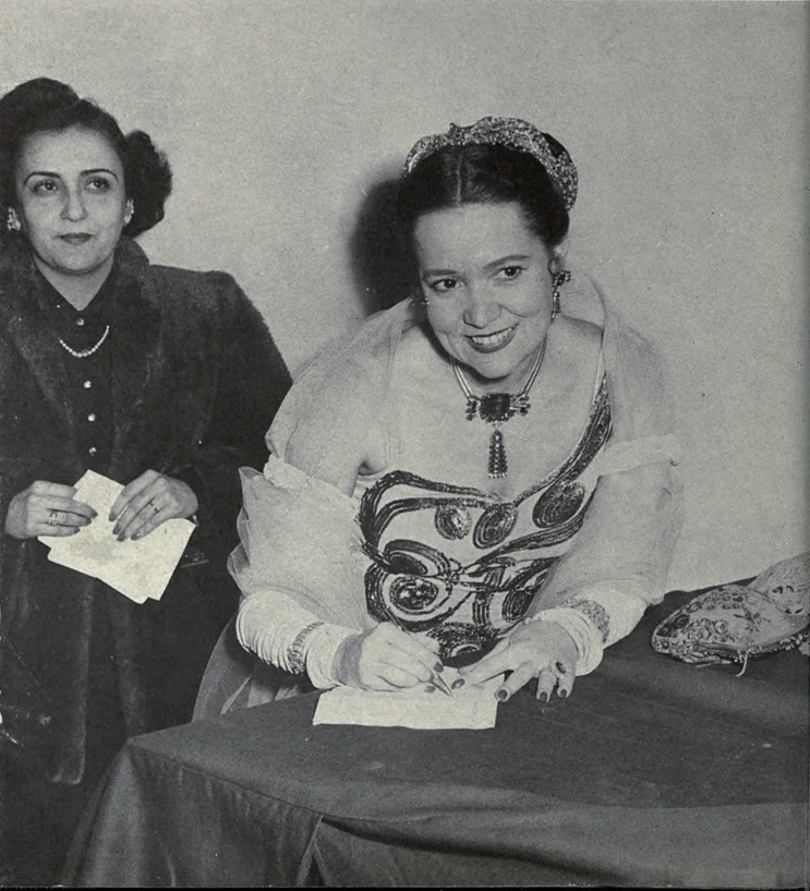 Photograph of Bidu Sayão during a visit to Hill Auditorium at the University of Michigan This work is in the public domain because it was published in the United States between 1923 and 1963 and although there may or may not have been a copyright notice, the copyright was not renewed. Unless its author has been dead for the required period, it is copyrighted in the countries or areas that do not apply the rule of the shorter term for US works, such as Canada (50 pma), Mainland China (50 pma, not Hong Kong or Macao), Germany (70 pma), Mexico (100 pma), Switzerland (70 pma), and other countries with individual treaties. See Commons:Hirtle chart for further explanation. This work is in the public domain in the United States because it was published in the United States between 1923 and 1977 without a copyright notice. See Commons:Hirtle chart for further explanation. Note that it may still be copyrighted in jurisdictions that do not apply the rule of the shorter term for US works (depending on the date of the author's death), such as Canada (50 p.m.a.), Mainland China (50 p.m.a., not Hong Kong or Macao), Germany (70 p.m.a.), Mexico (100 p.m.a.), Switzerland (70 p.m.a.), and other countries with individual treaties.